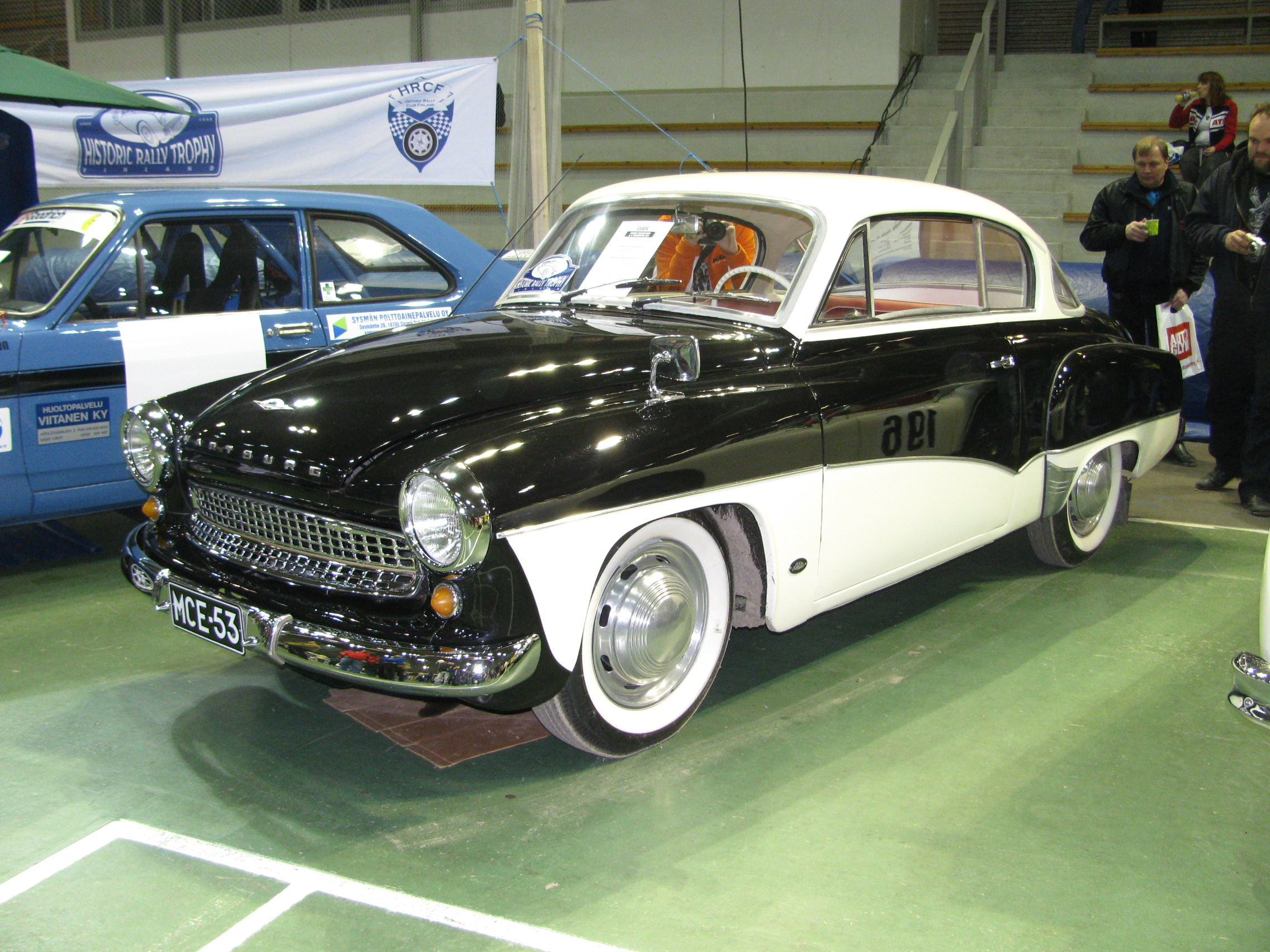 Wartburg 311 Coupé, Classic Motor Show in Lahti, Finland.